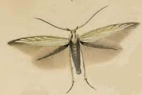 Stainton’s Natural History of the Tineina (1855–1873): Coleophora ornatipennella